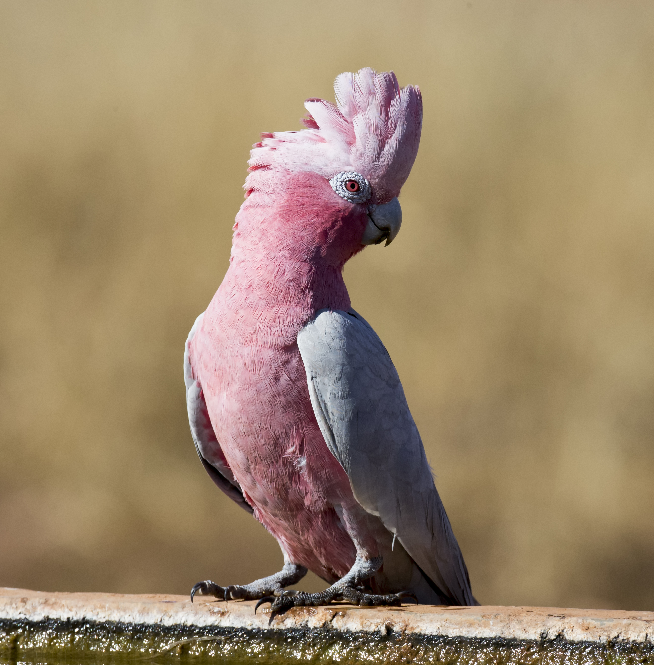 Yes, you are a pretty boy, now can you drink and move along?